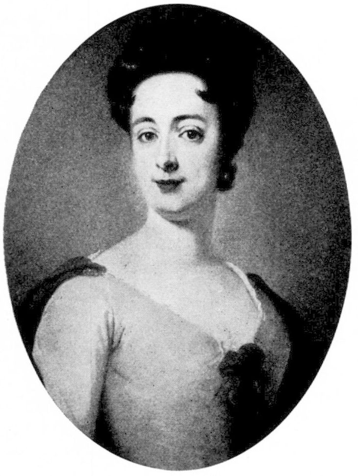 Swedish courtier and baroness Emerentia von Düben (1669-1743)